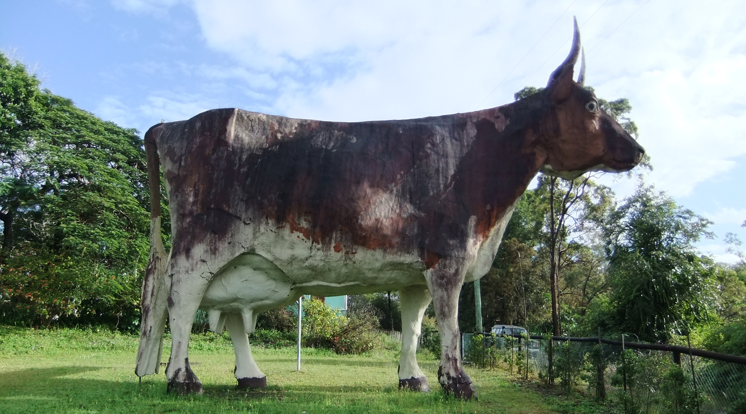 The Nambour Regional Training Centre formerly known as the Big Cow - Taken on the Saturday, 20th July 2013 at 8:39am.